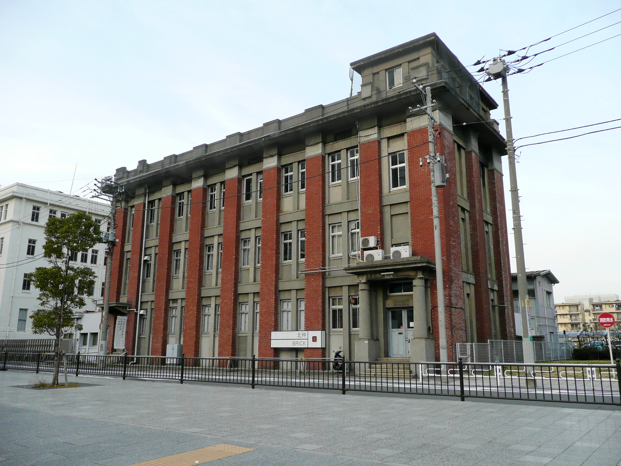 Kitanaka BRICK(TEISAN WAREHOUSE old head office).